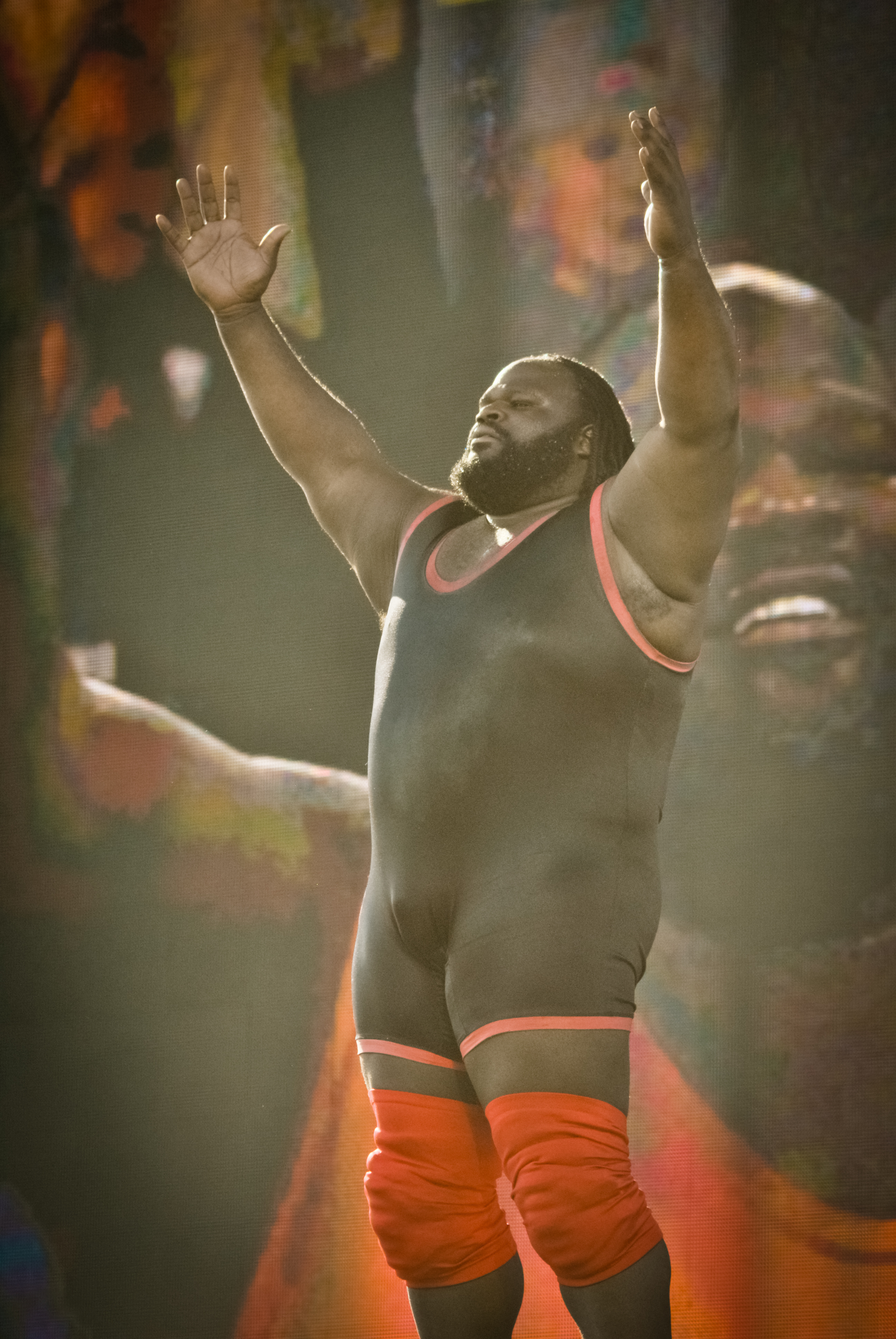 Mark Henry at WWE's Tribute to the Troops event on December 11, 2010 in Fort Hood, Texas.